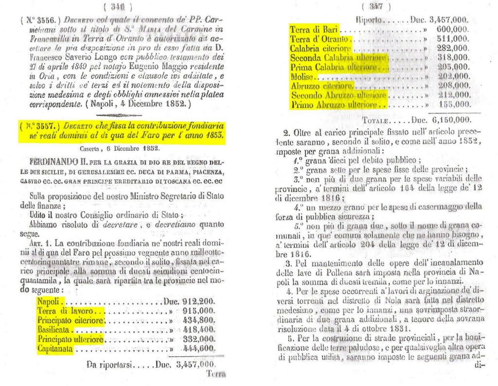 Laws and Decrees of the King of the two Sicilies of the year 1852 - II semester